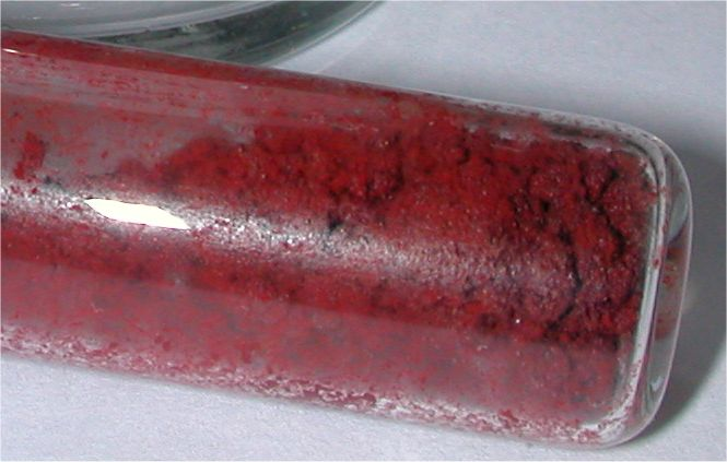 Red phosphor